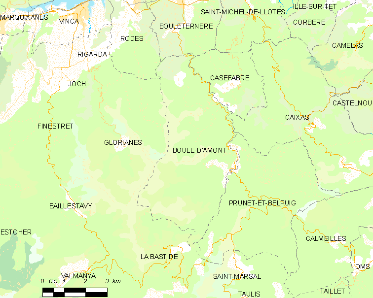 Map of French municipality